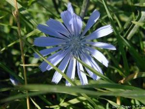 Cichorium intybus: Flower